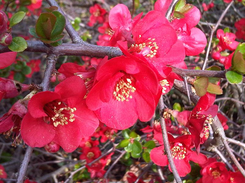 Chaenomeles x superba at Kew Gardens, England.